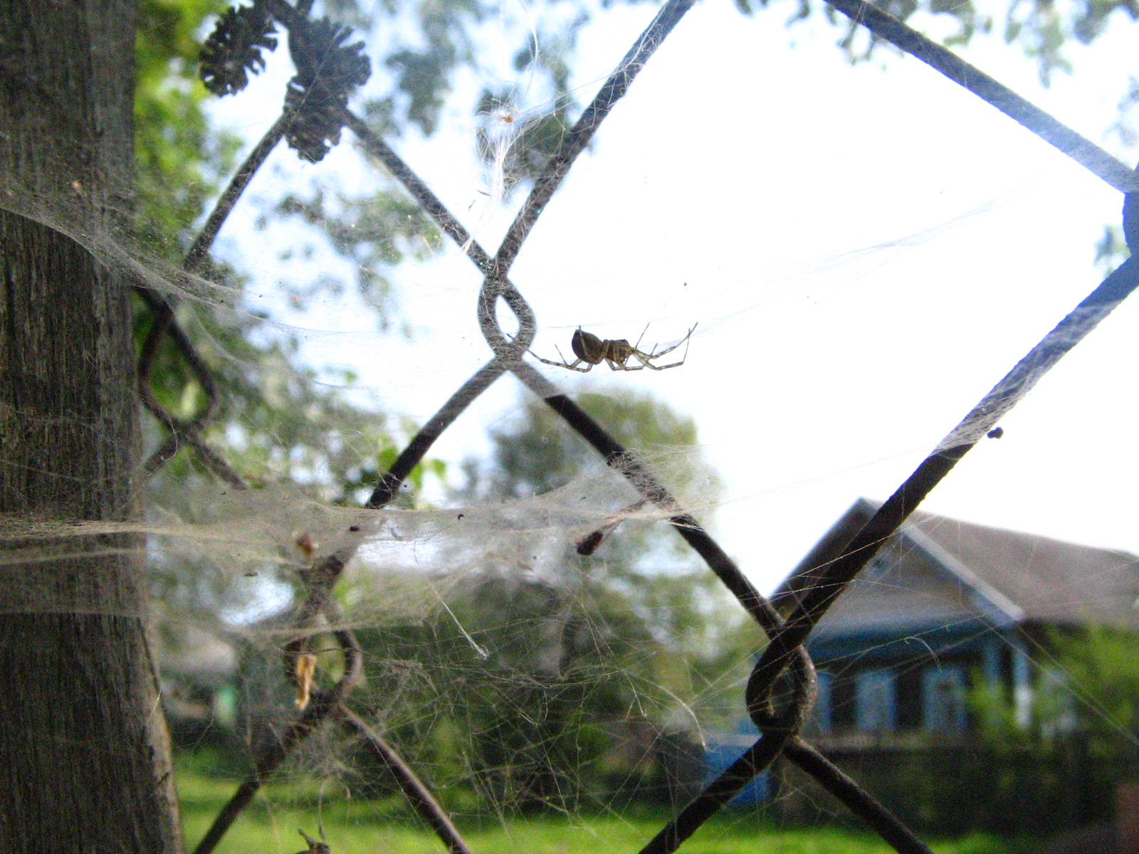 The spider...